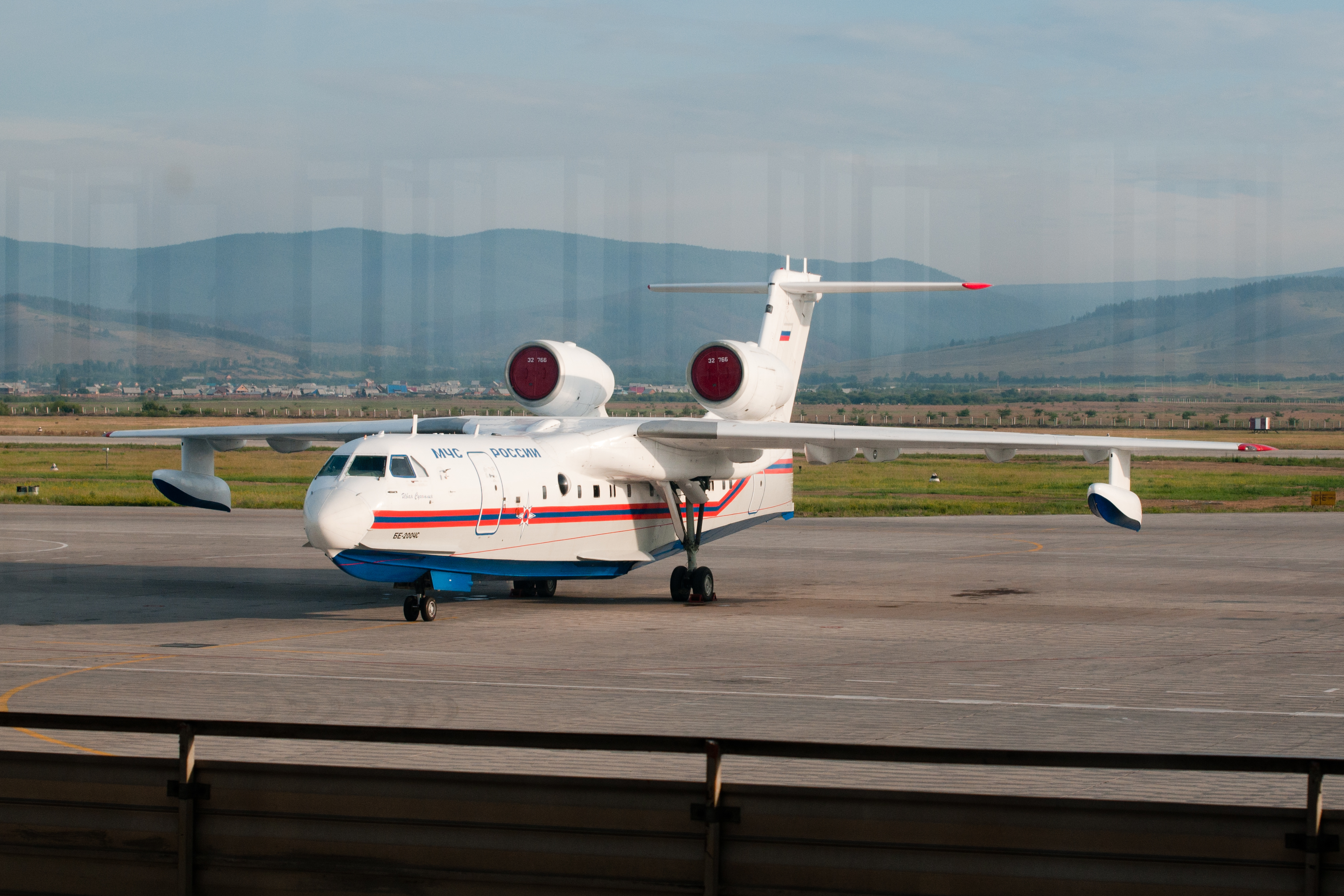 Beriev Be-200 at Ulan-Ude Airport.